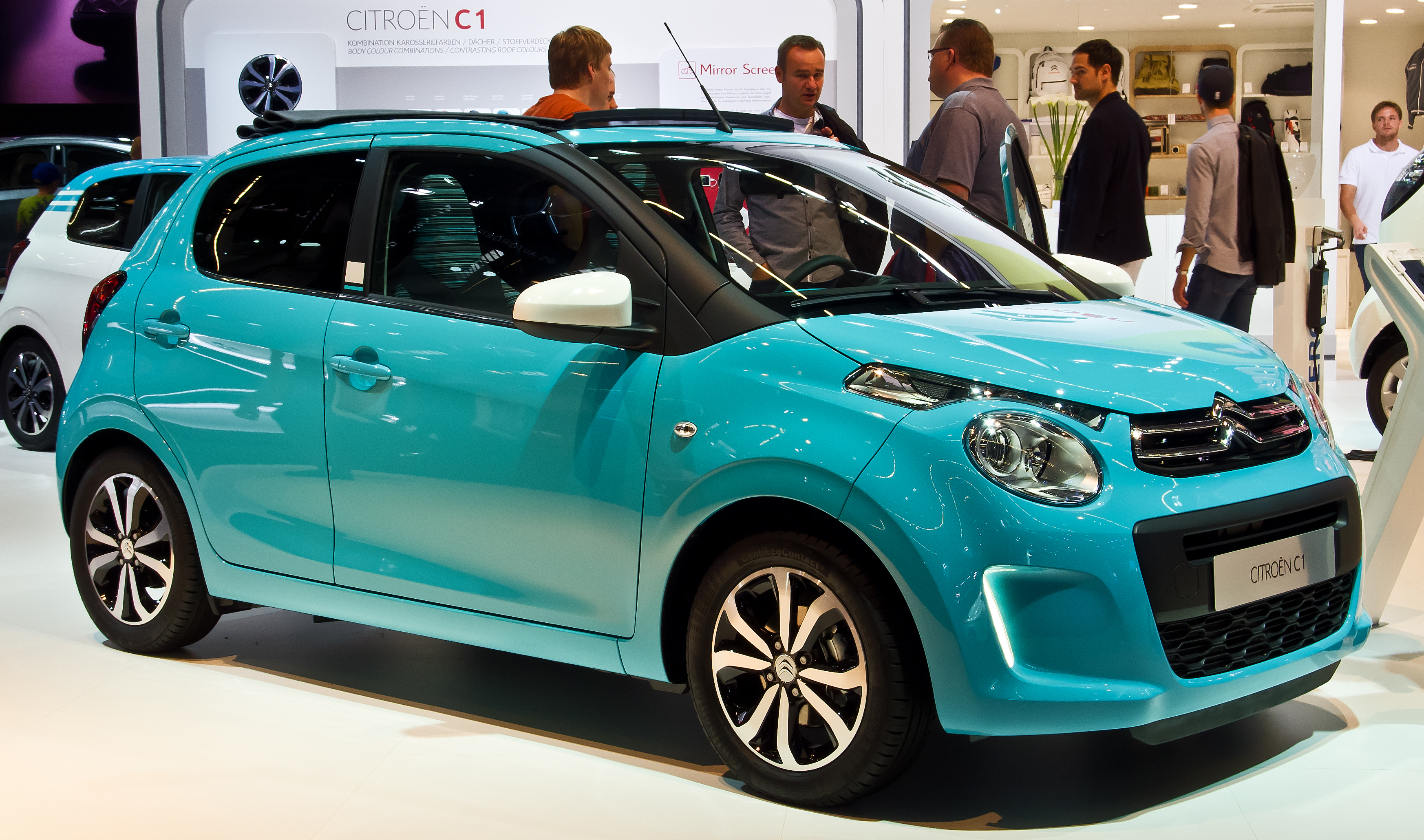 Citroën C1 PureTech 82 Airscape Feel Edition (II)